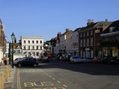 This was taken by me, summer 2005 and I release under GFDL. It is of Castle Street, Farnham, Surrey. user:dejvid